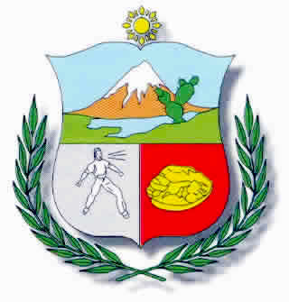 Escudo de apurimac